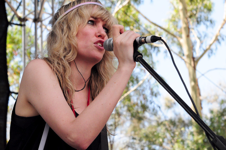 Ladyhawke playing live at Nevereverland 2008 at Belvoir Amphitheatre, Perth, Western Australia.